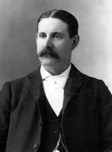 Photograph of Tirey L. Ford purchased on Jan 27, 2016 from Vintage Photo Works.